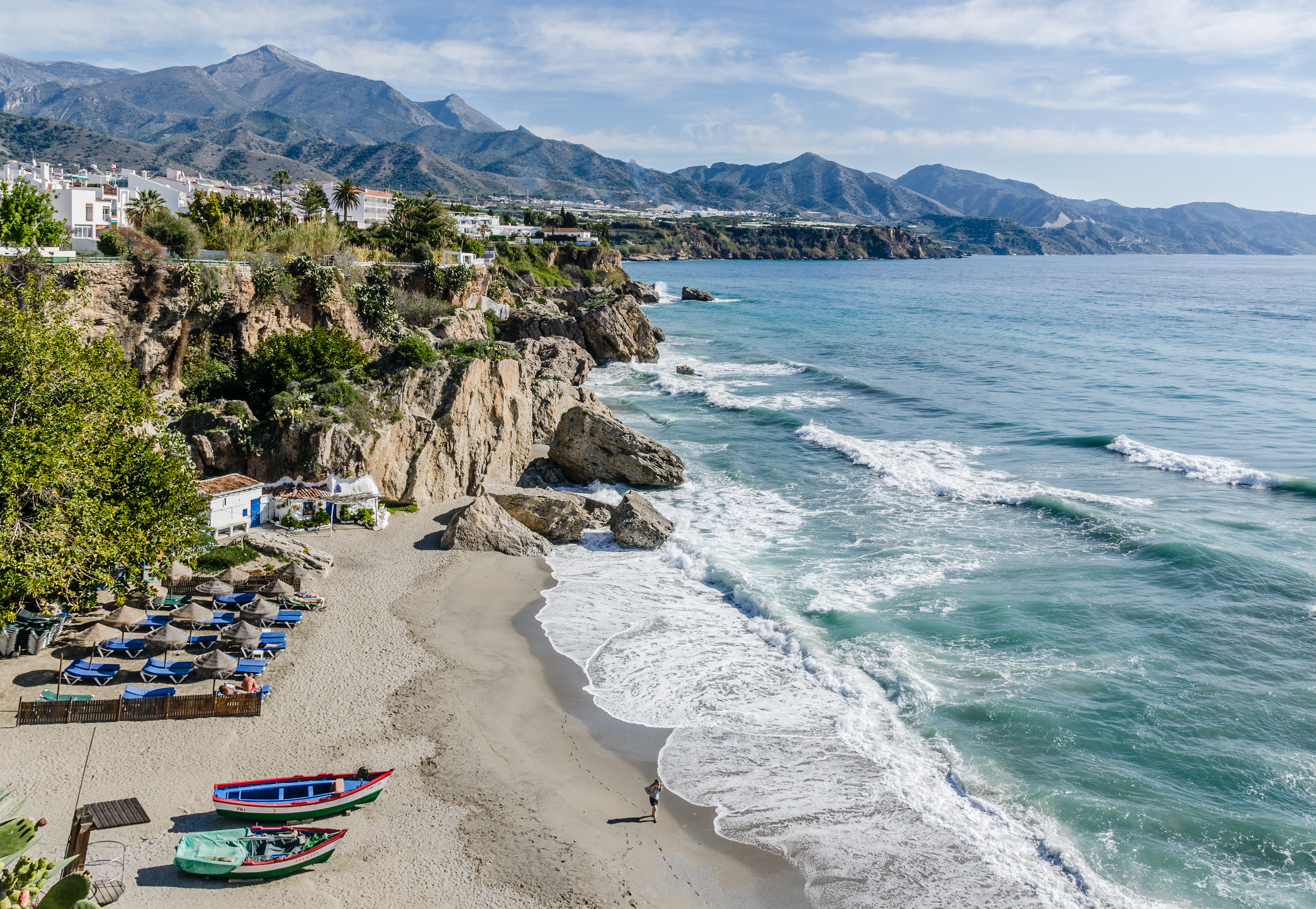 View from Balcón de Europa in Nerja, view north-east